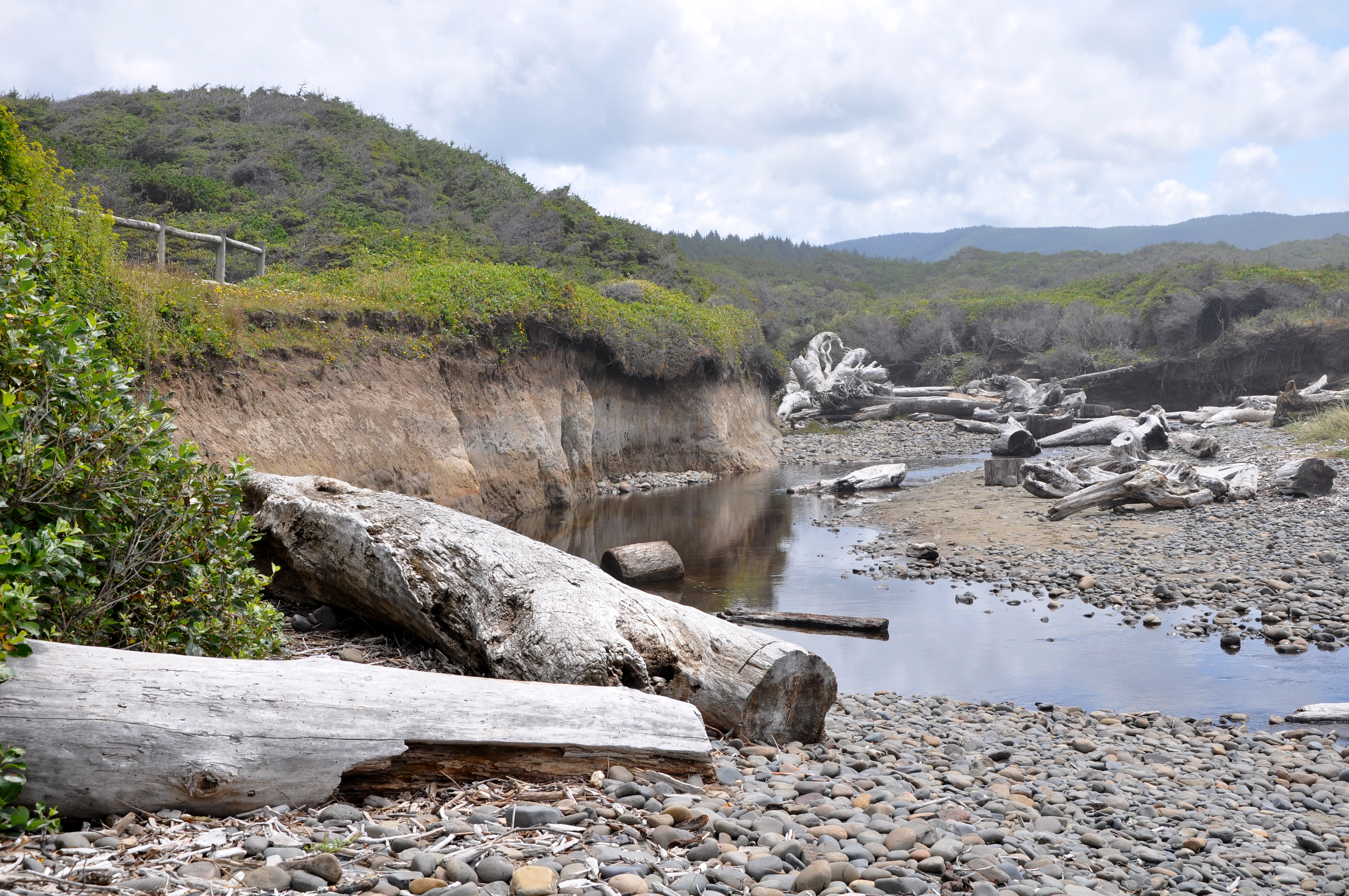 Muriel O. Ponsler Memorial State Scenic Viewpoint north of Florence in the U.S. state of Oregon. View is upstream along China Creek, which empties into the nearby Pacific Ocean.